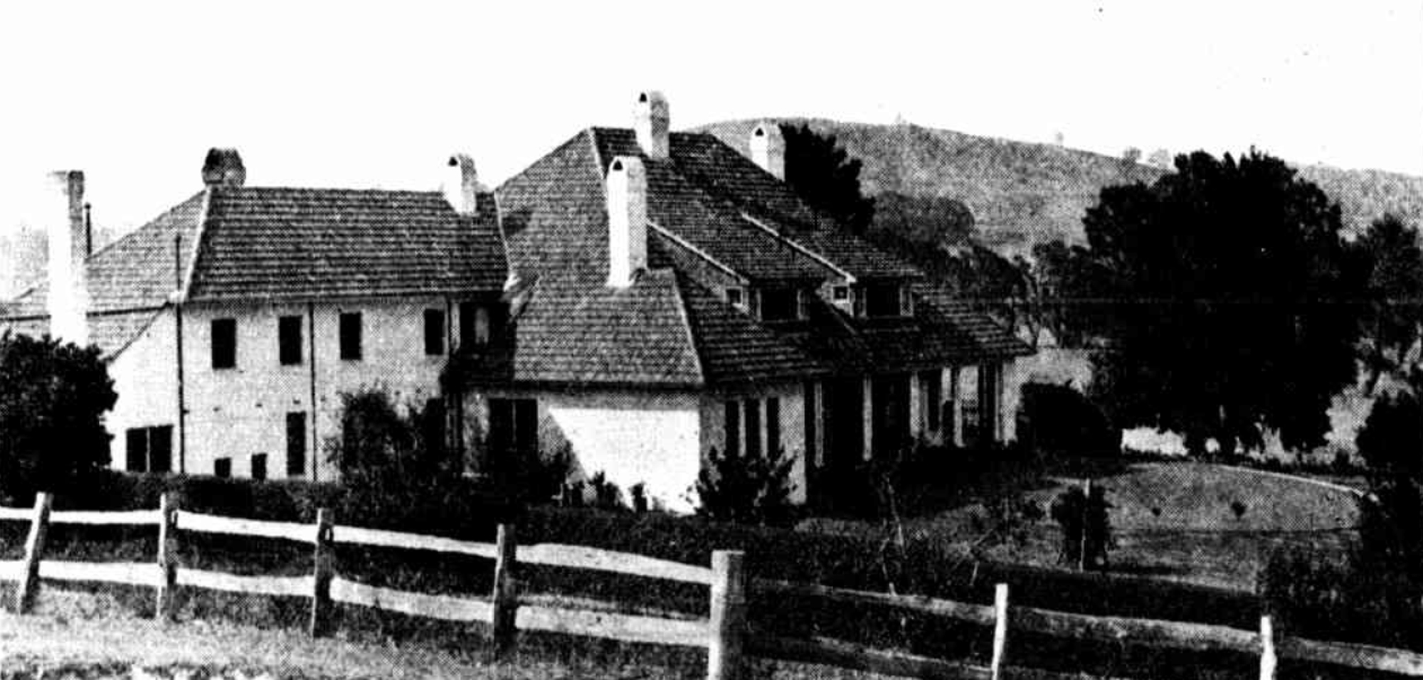 Mount Broughton now Peppers Manor House, Sutton Forest